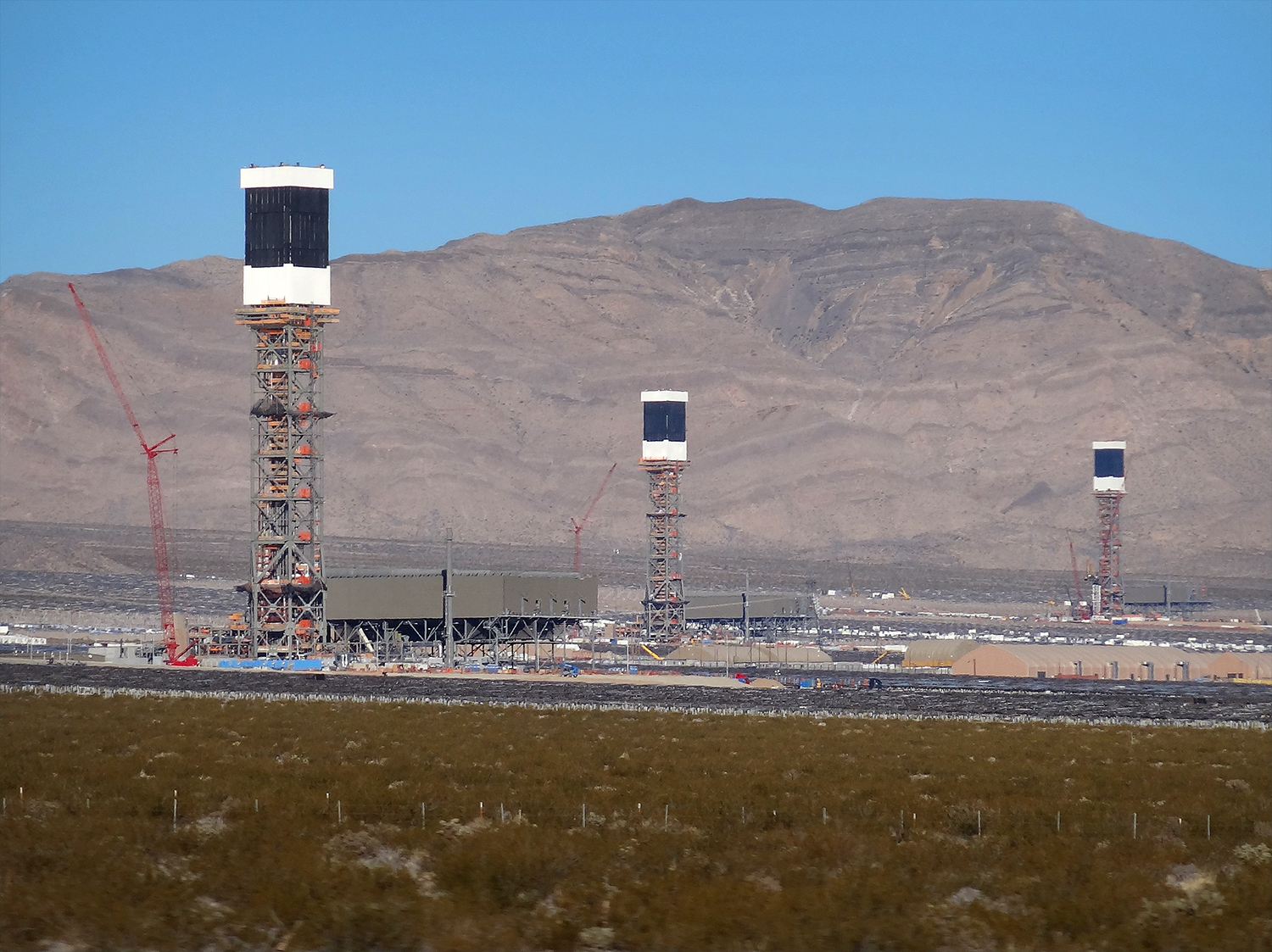 Looking west towards the Ivanpah's three boiler towers.